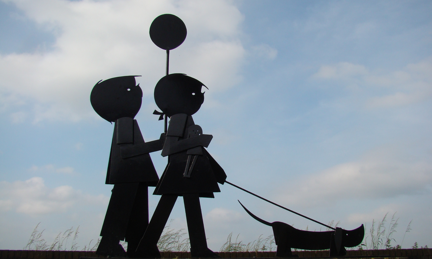 Jip and Janneke stattue at Zaltbommel, Netherlands